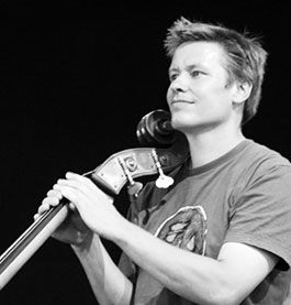 Peter Wuust